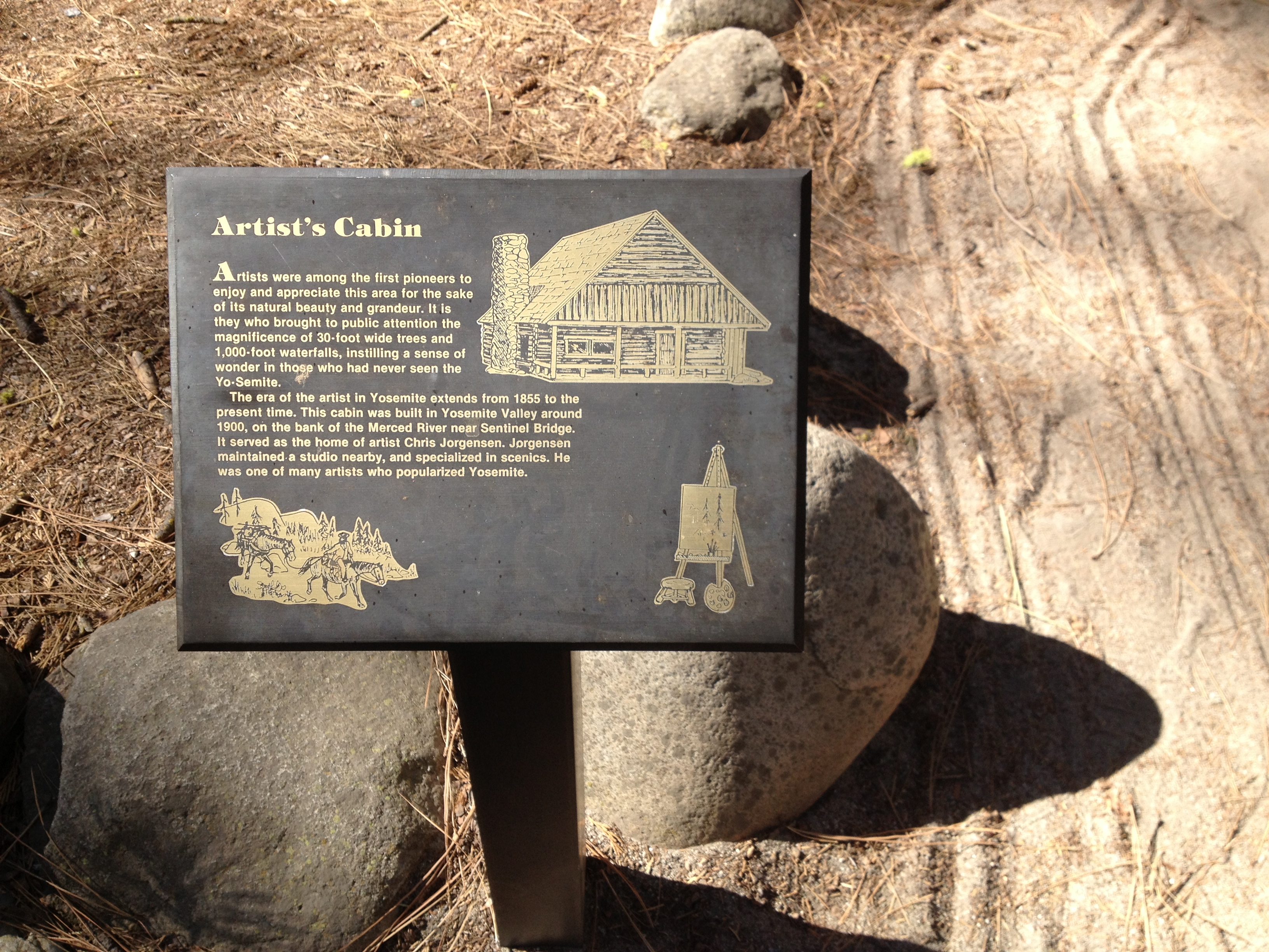 Chris Jorgenson Studio, Pioneer Yosemite Historic Center Yosemite National Park